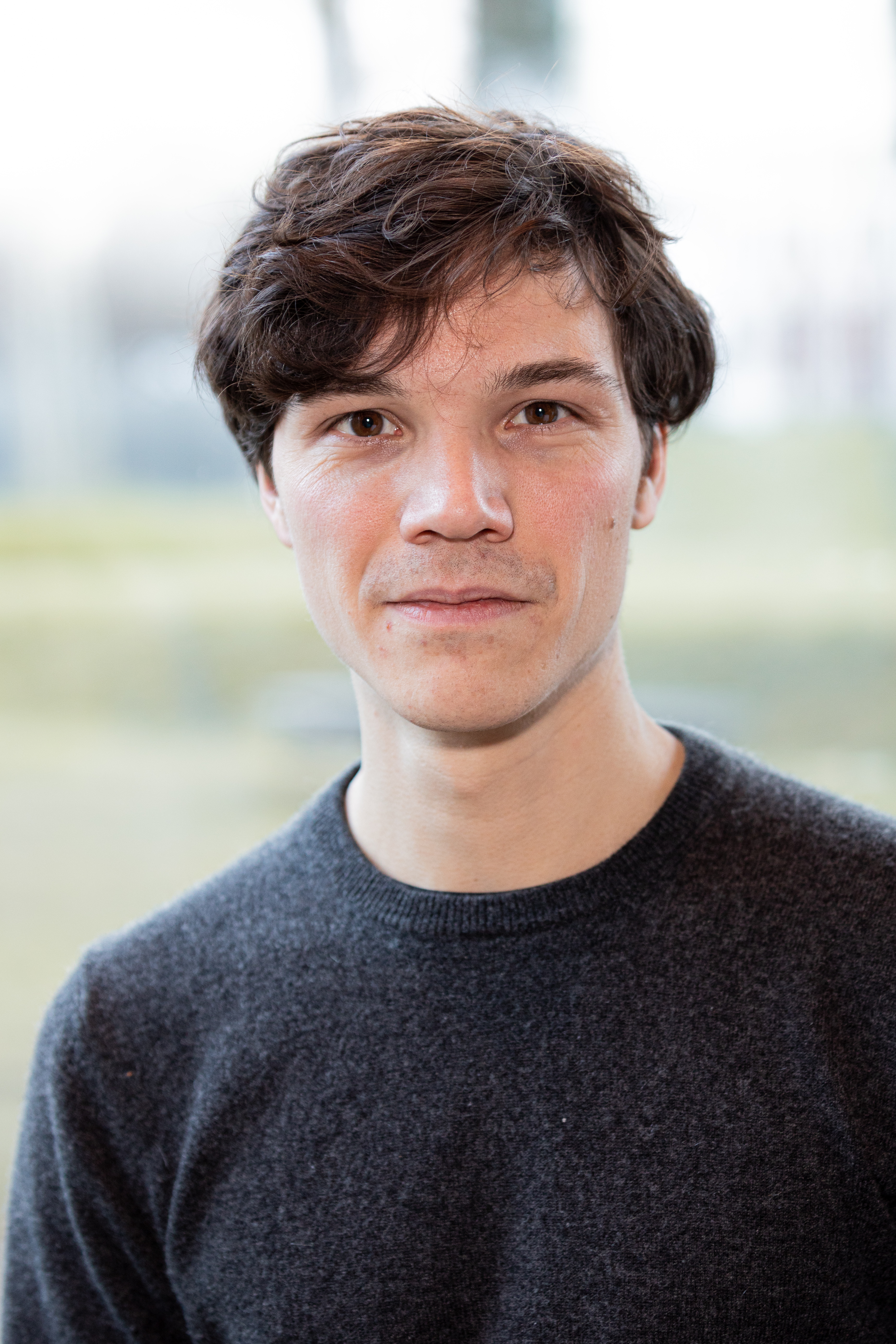 Sebastian Urzendowsky at the Hessian reception during the Berlinale 2019